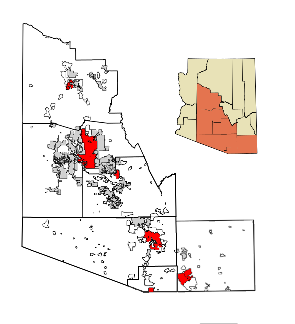 Map of the Arizona Sun Corridor, showing each county with the borders of its cities, towns, and CPDs. The largest community in each county is highlighted in red. Based on